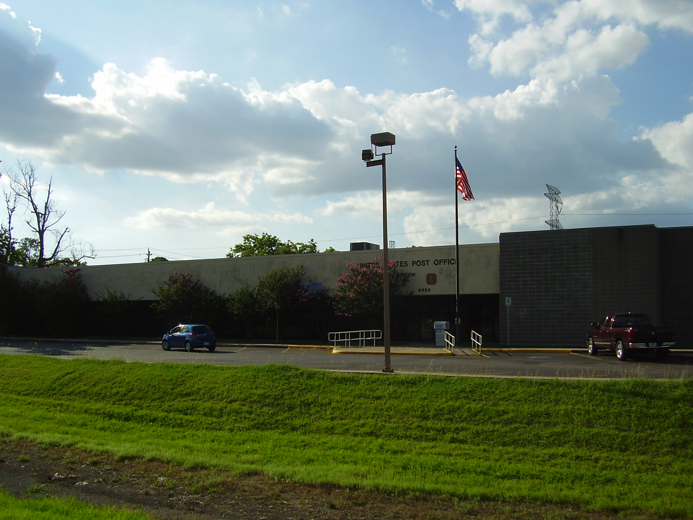 James Griffith Station Post Office, Spring Branch, Houston, TX